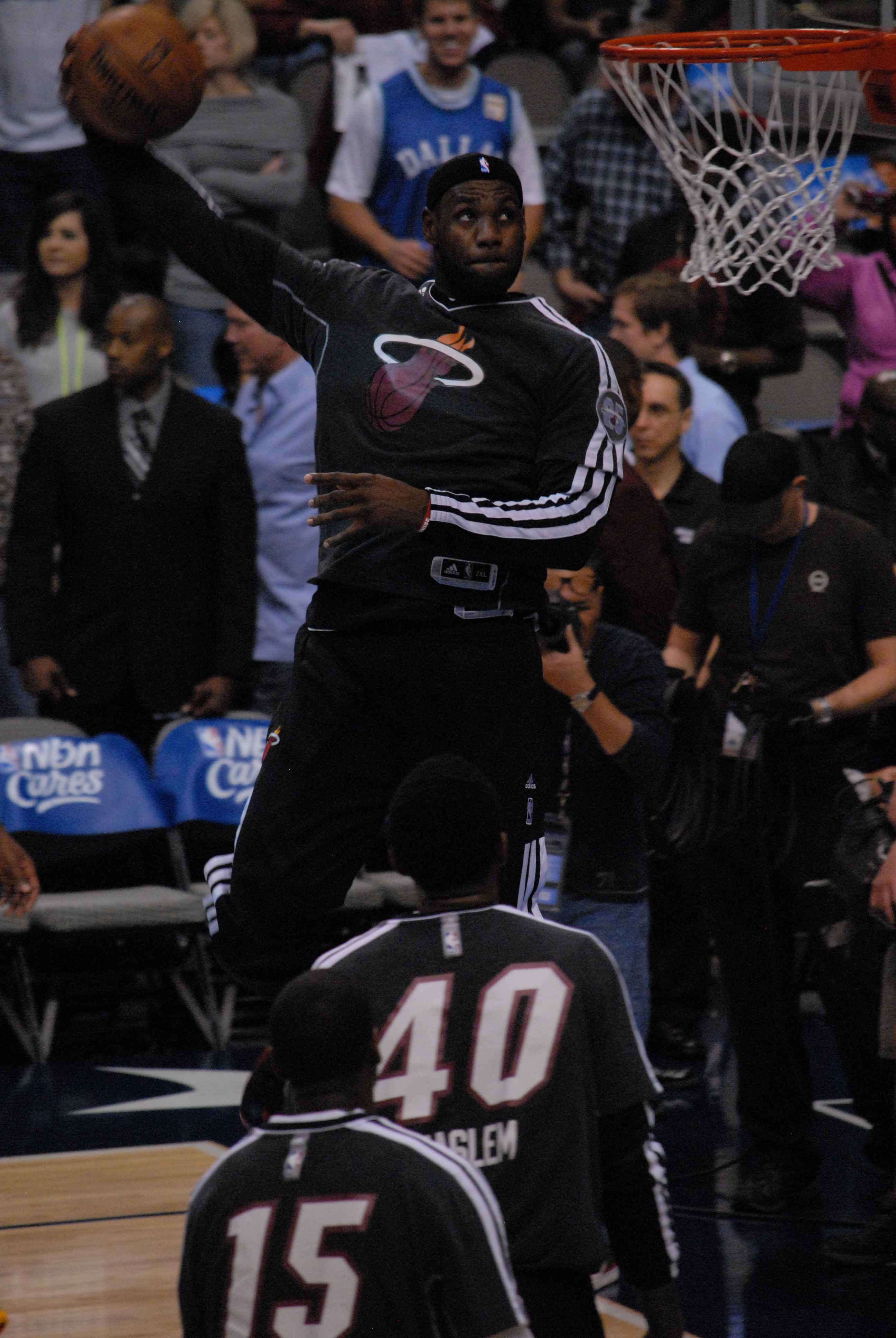 12/20/2012, Dallas Mavericks vs Miami Heat